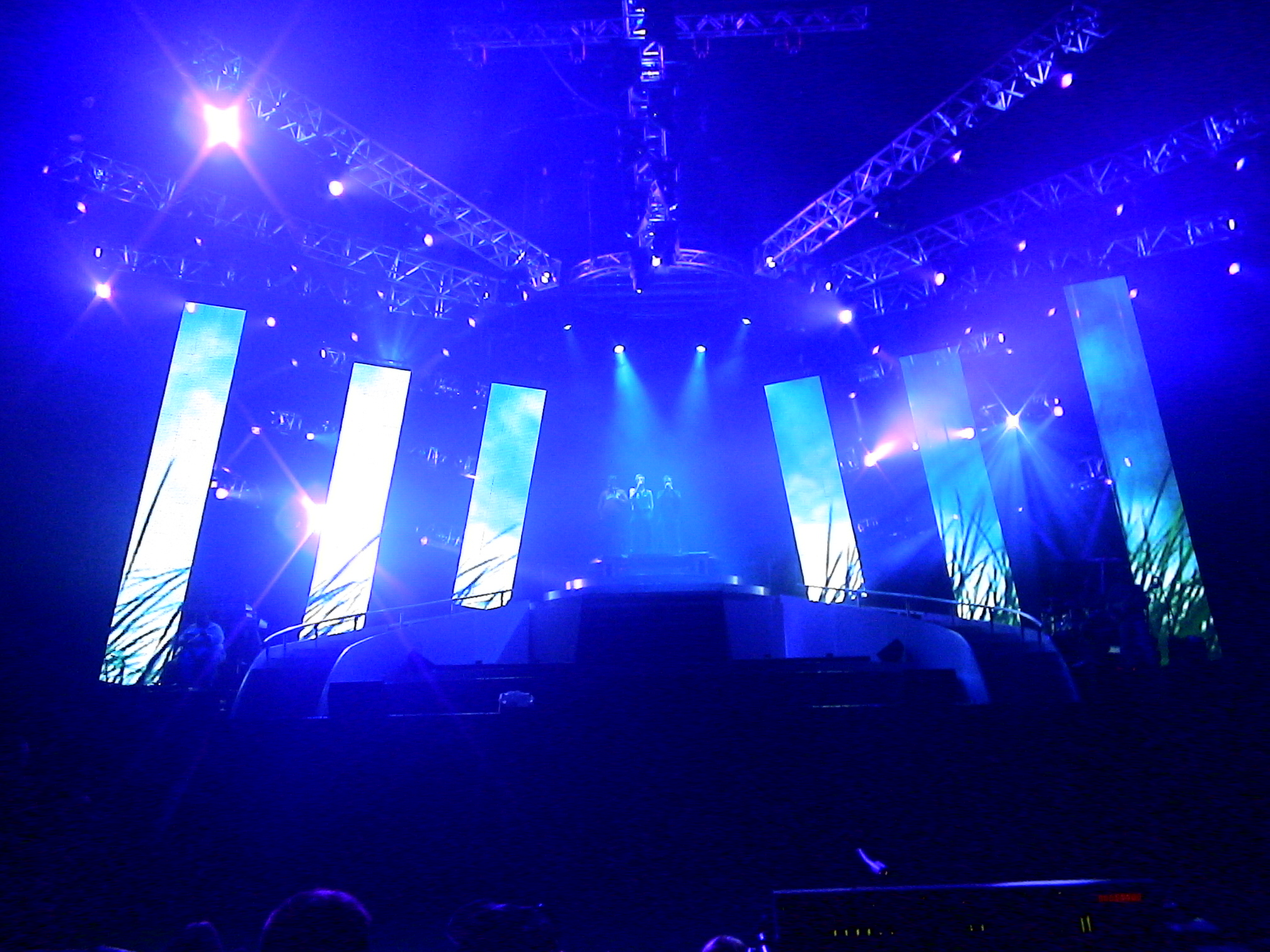 Westlife The Love Tour, Wembley, UK, 2007